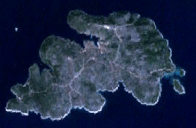 Satelite image of island Drvenik Veli.